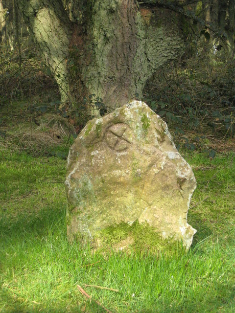 The Culbone Stone The Culbone Stone, which was discovered in 1940, is a scheduled ancient monument. The style of the incised wheeled cross suggests that it dates from the C7th. The cross can be reached by a permissive path from the Worthy Toll Road.